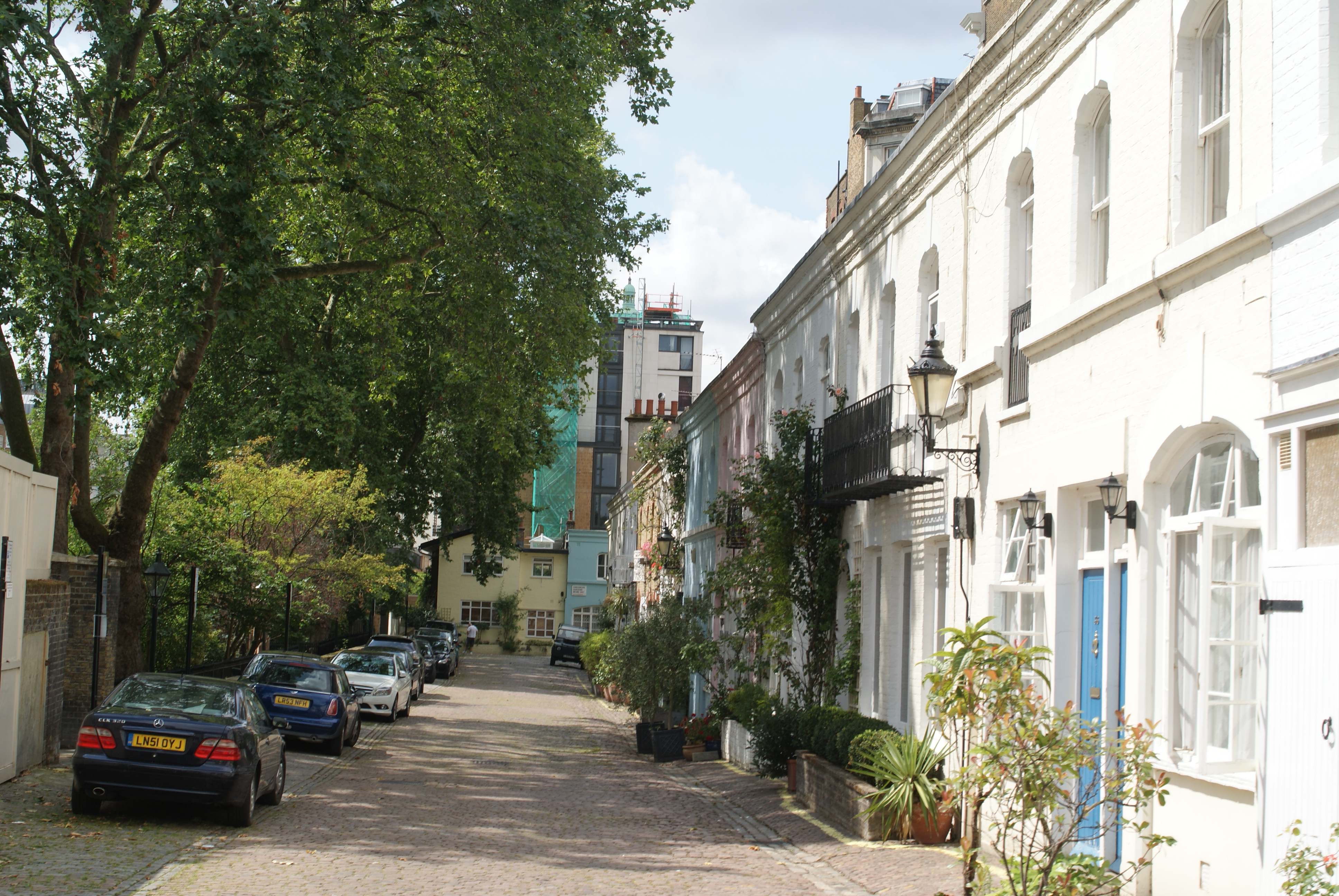 Ennismore Gardens Mews, London SW7.